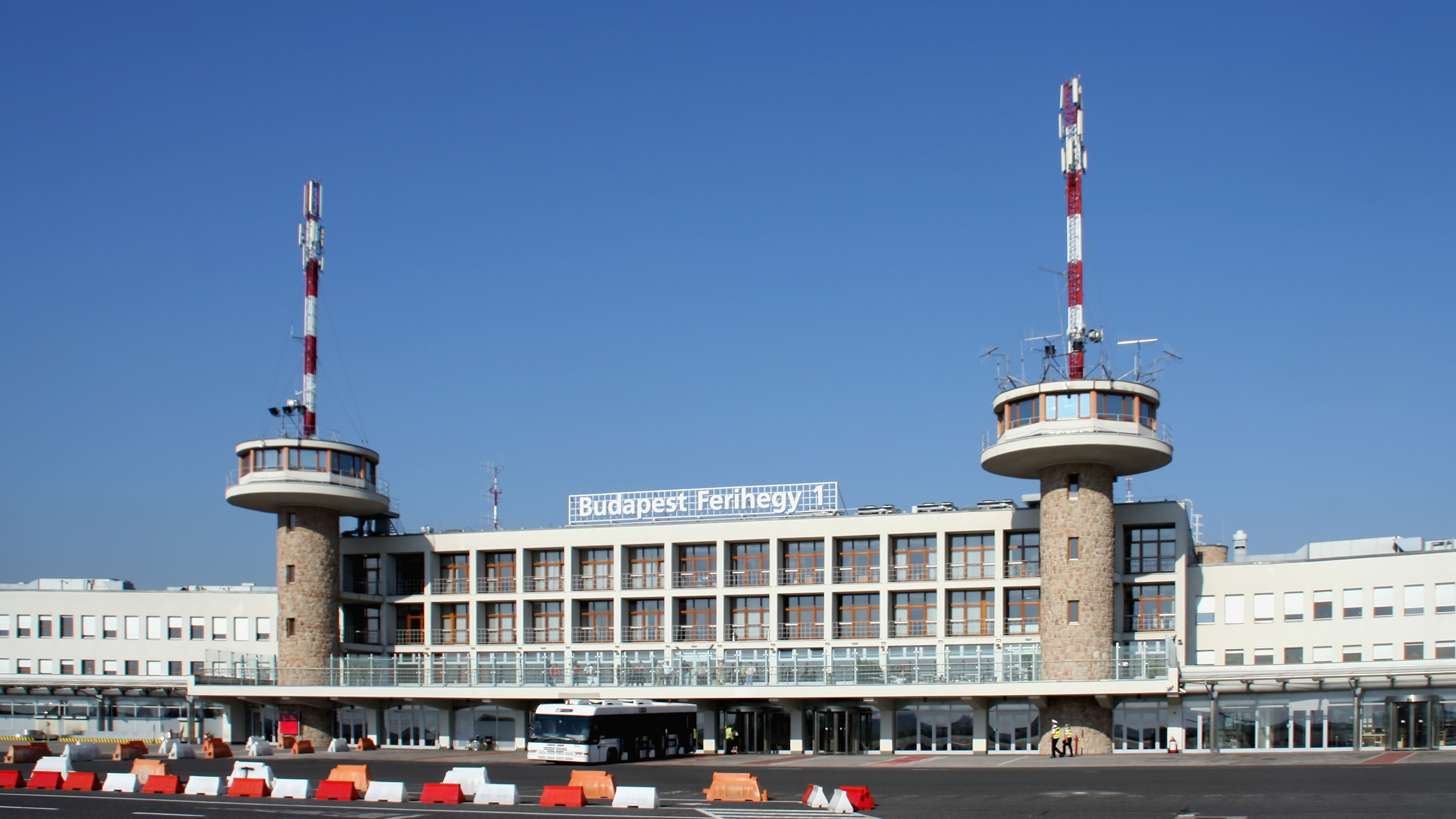 Airport Budapest, Ferihegy, Terminal 1. View from ramp. This building houses the head office of the Transportation Safety Bureau This is a photo of a monument in Hungary. Identifier: 1251